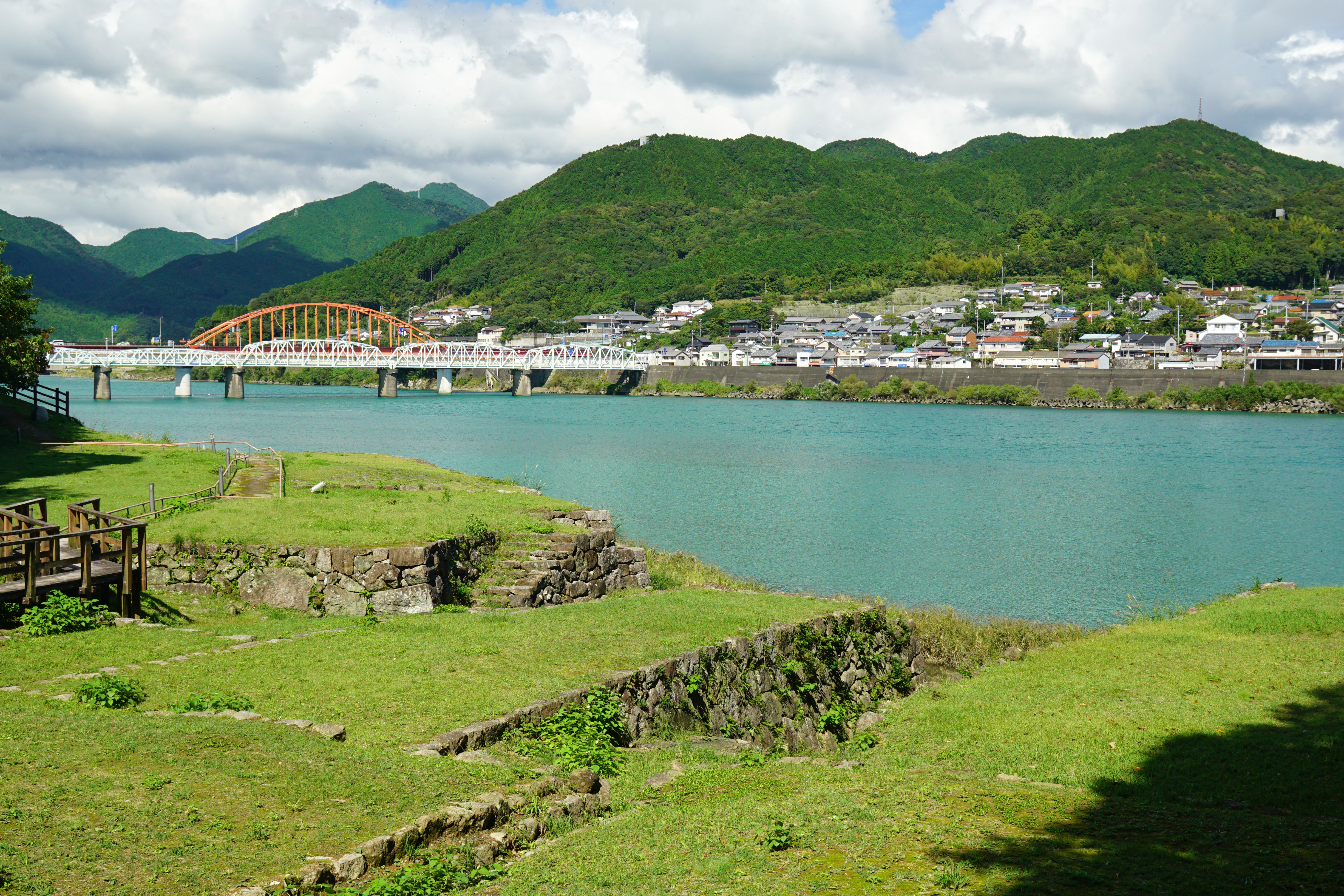 Shingū Castle in Shingū, Wakayama prefecture, Japan